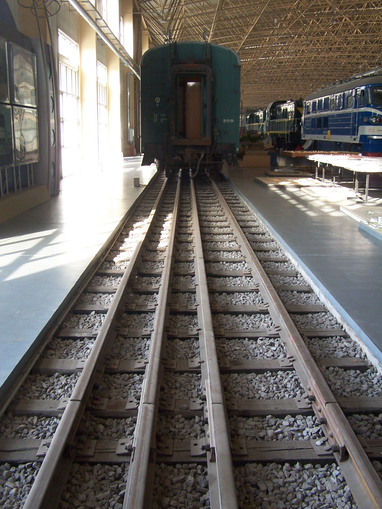 different gauges, from left: 1435mm, 1000mm and 600mm. photo taken in China Railwai Museum, Beijing